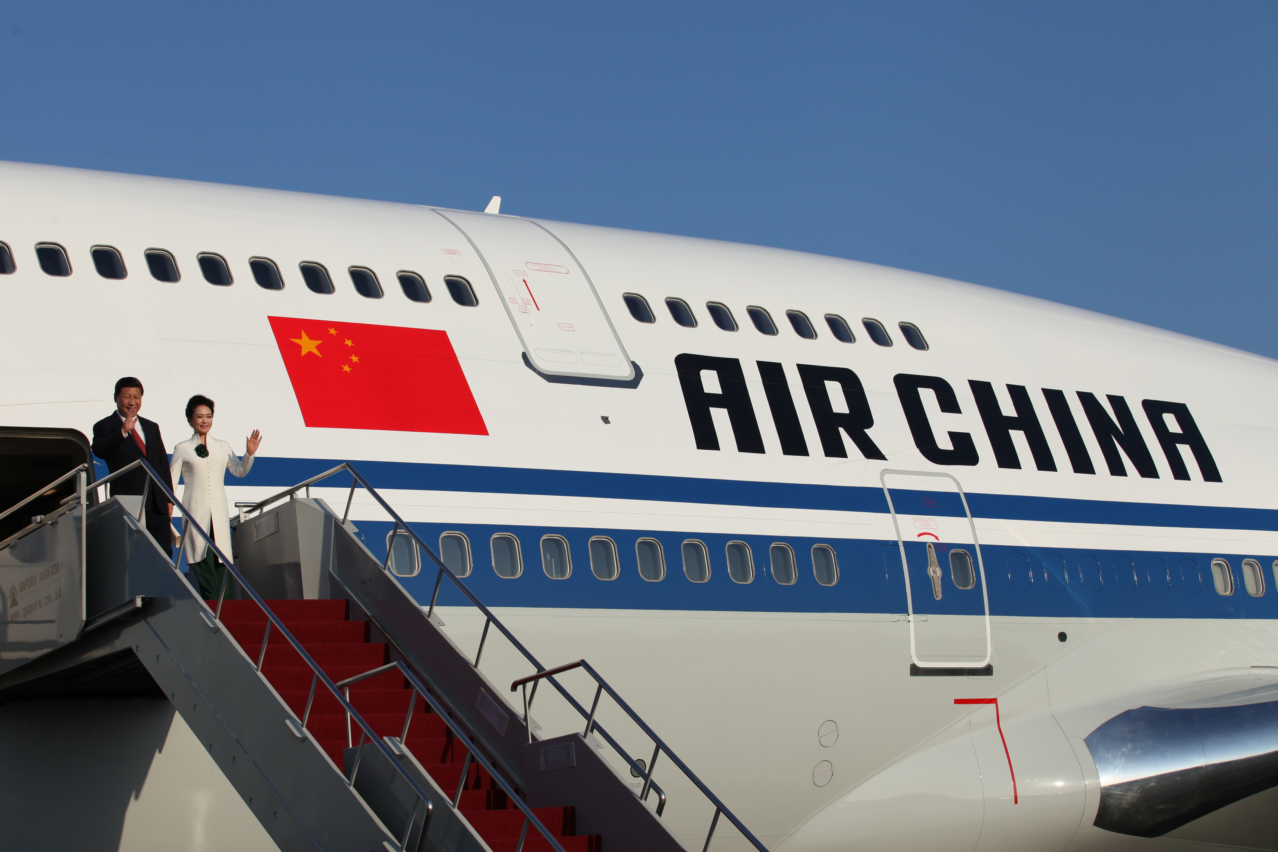 Presiden China, Xi Jinping bersama ibu negara mendarat di Bali, Indonesia untuk menghadiri KTT APEC 2013.